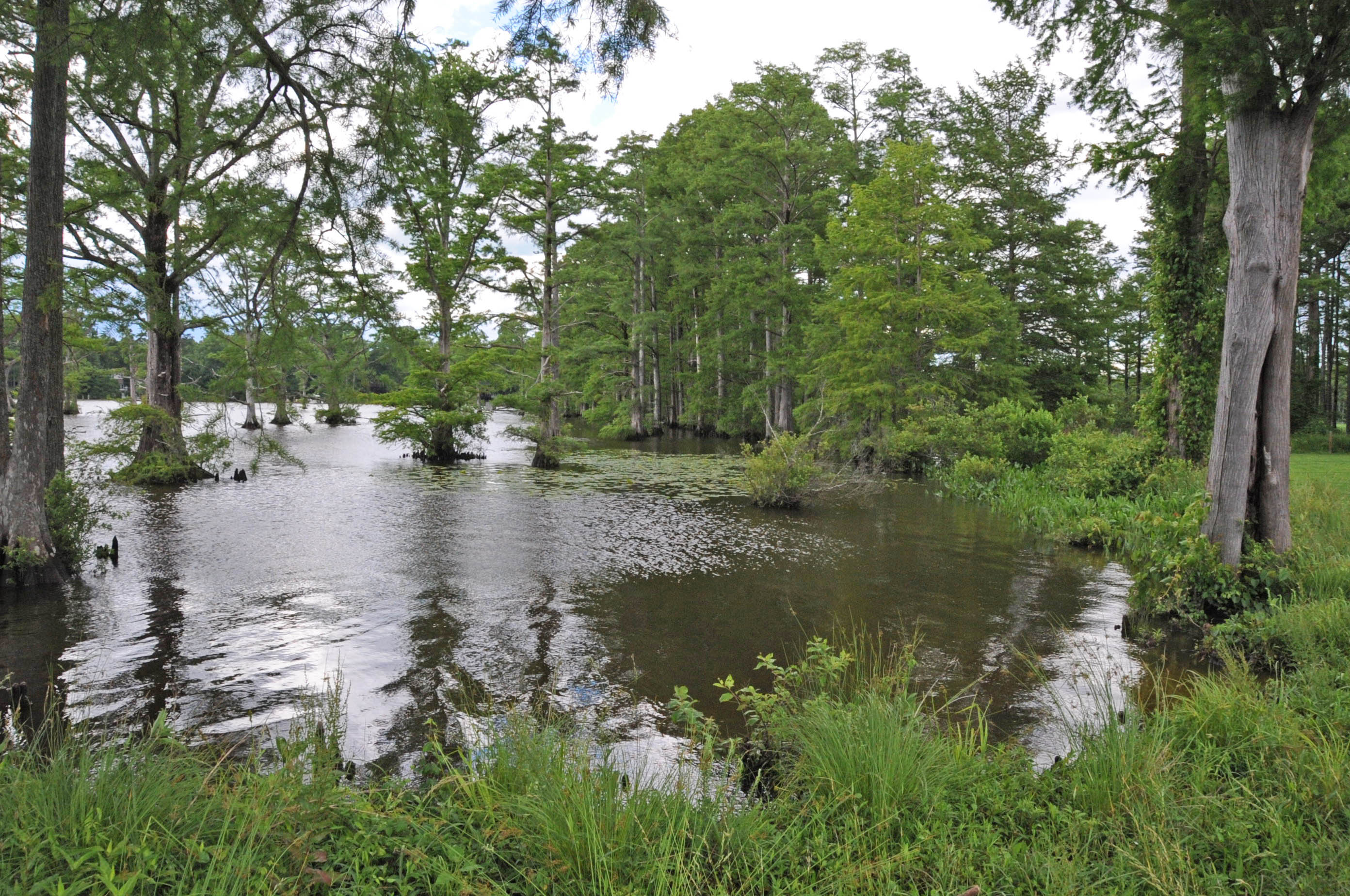 THIS IS THE ACTUAL SITE OF THE VILLAGE RIGHT ON THE POINT WHERE DIASUND CREEK AND CHICKAHOMINY RIVER MEET.